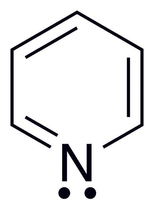 Skeletal Structure of Pyridine